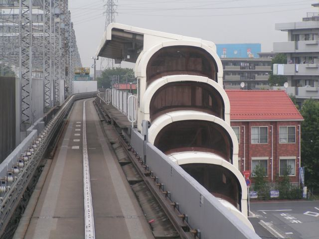 Kamonomiya Station in Kita-ku, Saitama-shi, Saitama, Japan